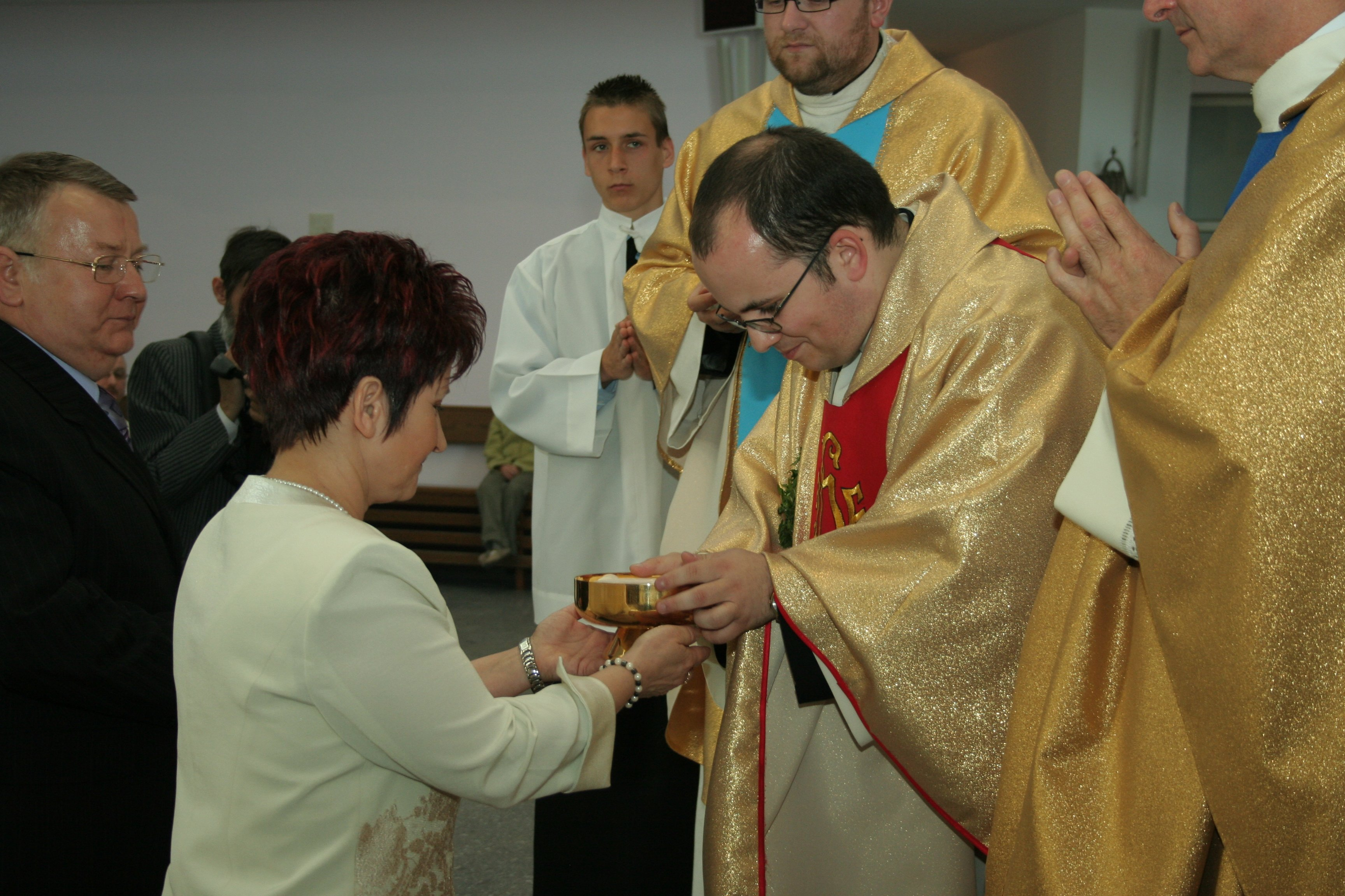 A procession with gifts in the beginning of the Liturgy of the Eucharist.